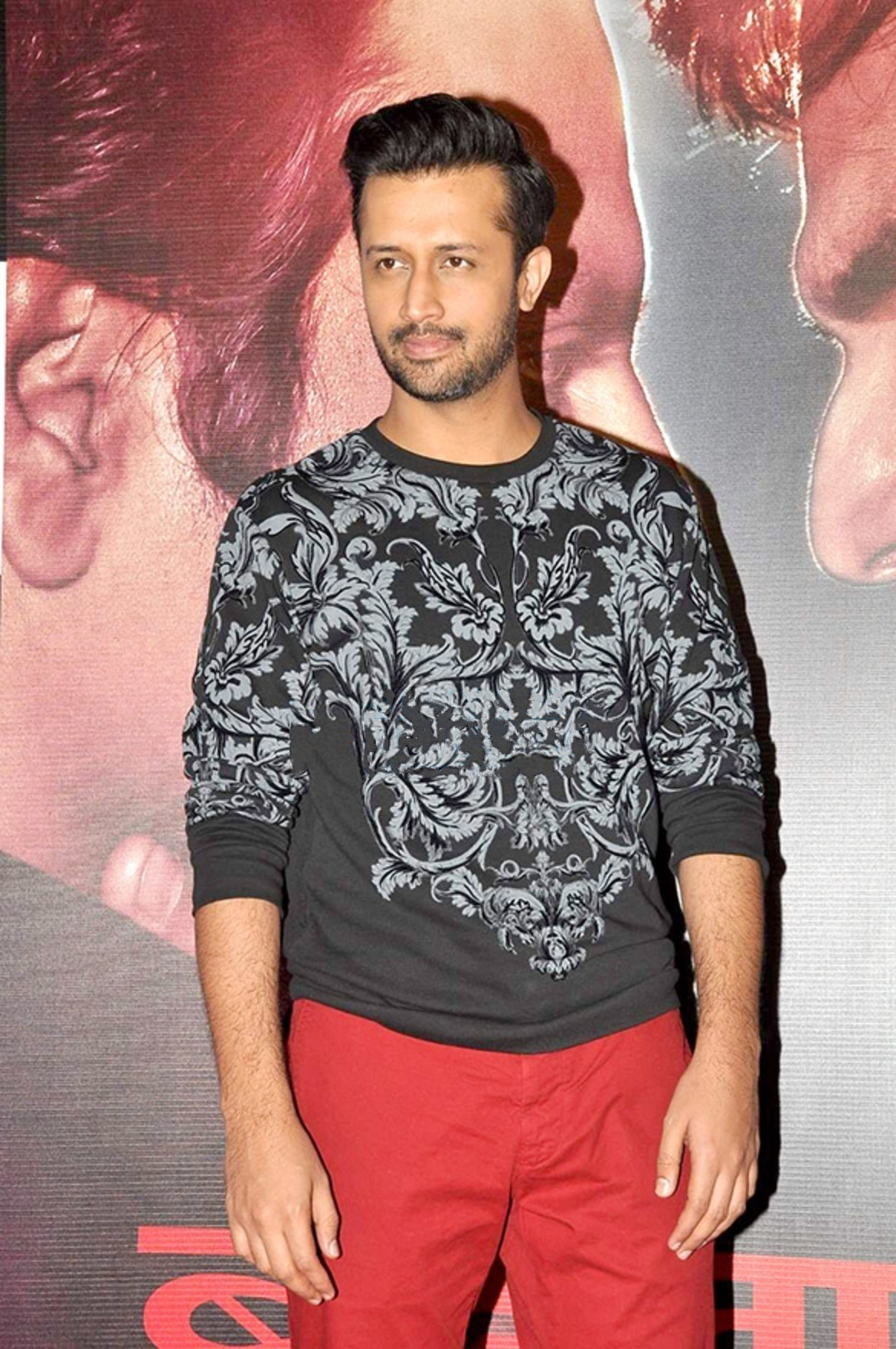 At if Aslam at success bash of Badlapur.